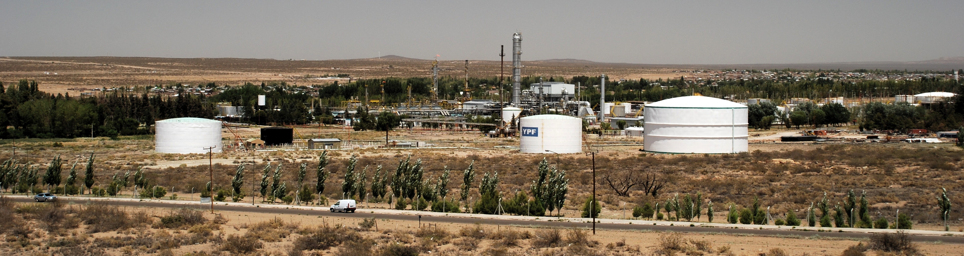 The oli refinery at Plaza Huincul, Neuquén region, Argentina